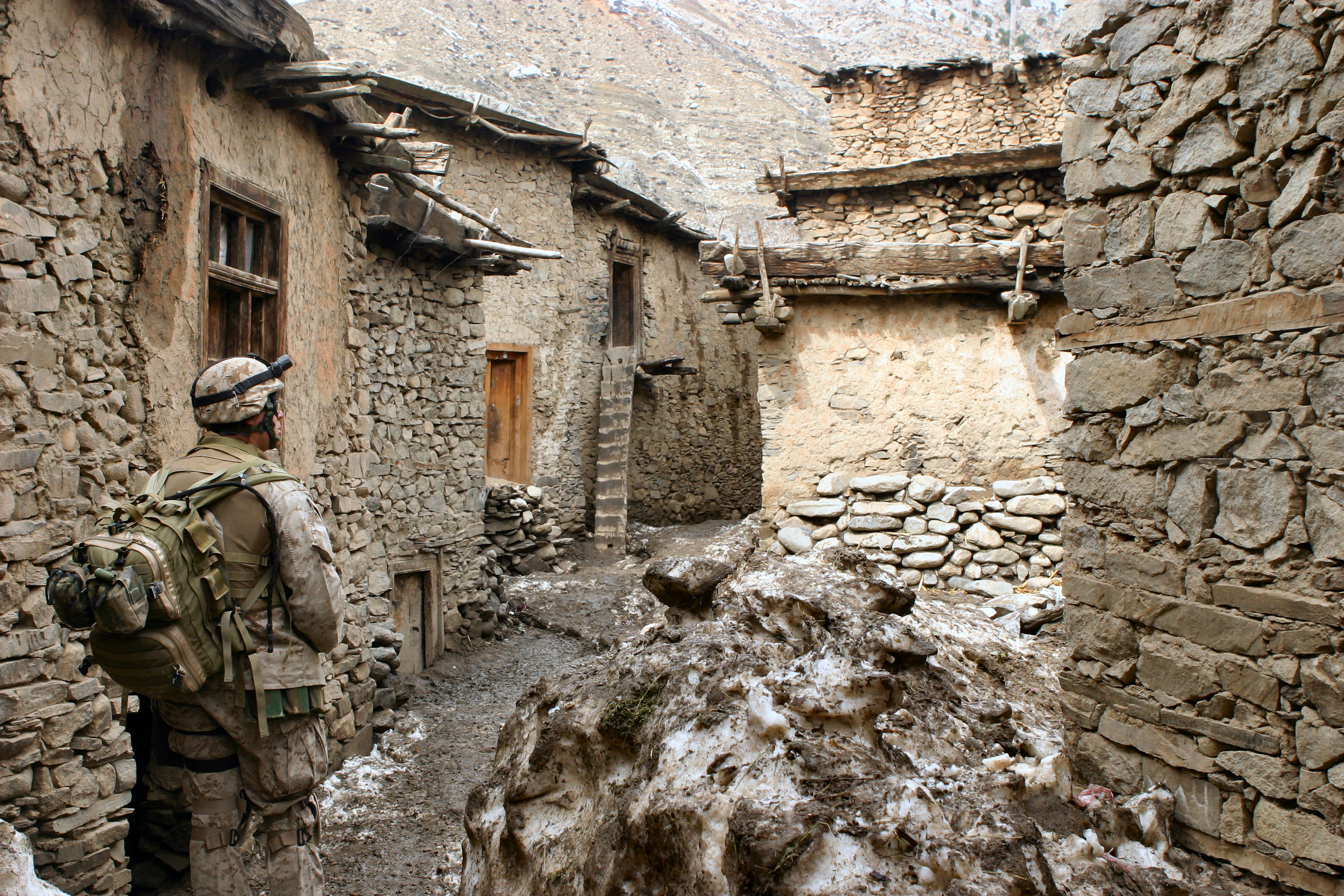 Original Caption: METHAR LAM, Afghanistan (April 6, 2005) – Hospital Corpsman 2nd Class Alonzo Gonzales with Kilo Company, 3rd Battalion, 3rd Marine Regiment, walks through an alley looking for signs of sickness or disease during an operation to capture suspected Anti-Coalition Forces in the vicinity of Methar Lam, Afghanistan recently. The 3rd Battalion, 3rd Marines is conducting security and stabilization operations in support of Operation Enduring Freedom. U.S. Marine Corps photo by Cpl. James L. Yarboro.